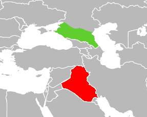 The North Caucasus region is colored green; Iraq is colored red.